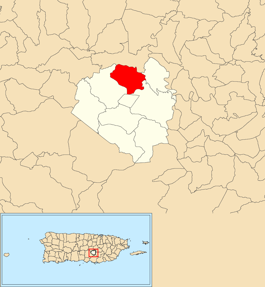 Caonillas, Aibonito, Puerto Rico locator map